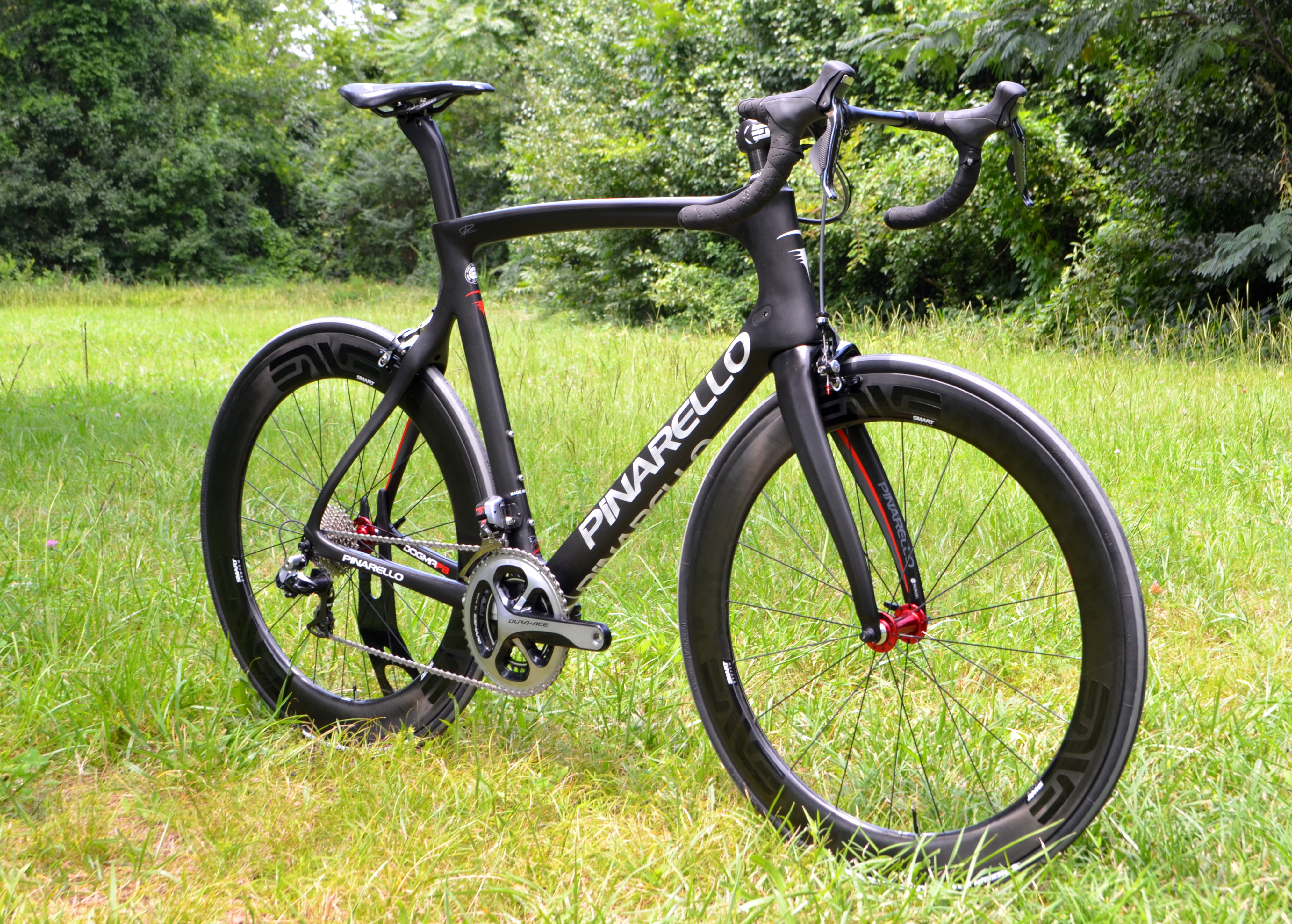 Pinarello Dogma F8 with Shimano Dura Ace Di2 and Enve 6.7 Wheelset